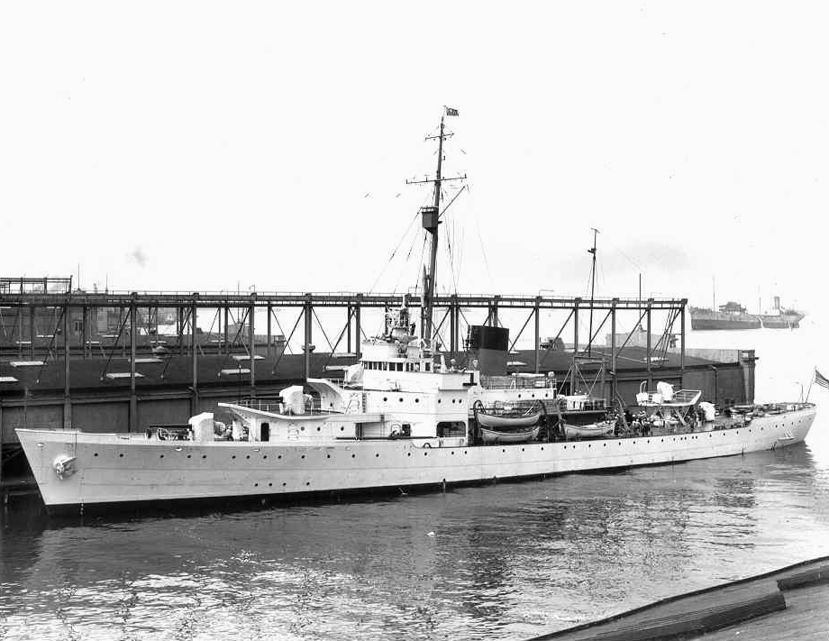 The U.S. Coast Guard cutter USCGC Campbell (WPG-32) at the New York Navy Yard, in May 1940. The peace-time armament consisted of two 12.7 cm/51 and two 6-pound signal guns, all mounted forward. The Hamilton, Bibb, Duane, Spencer and Taney originally carried a seaplane and associated derricks on the after deck, Campbell and Ingham did not carry aircraft. Here Campbell is tied up at the New York Navy Yard in May 1940 after workers added three 7.6 cm/51 guns in-line, aft. Her two signal guns that were directly forward of the bridge were replaced with a single 7.6 cm/50 caliber gun. Her two 12.7 cm/51 main batteries remained unchanged. Note the mid-aft 7.6 cm on a raised platform. Her armament was increased prior to her sailing for duty in Portugal. Campbell was the first Treasury-class cutter to transfer for duty with the Navy (on 1 July 1941) and the first to sail on escort of convoy duties when she escorted Convoy HX-159 which sailed on 10 November 1941.